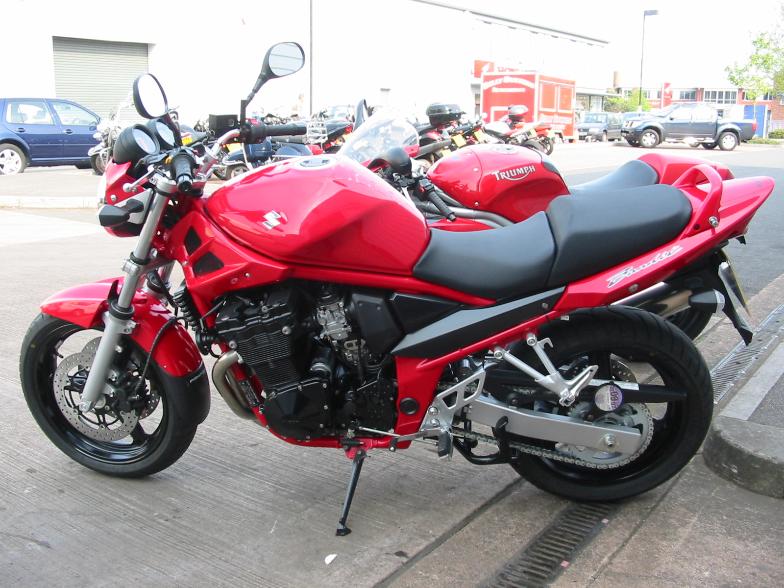 This was the last version of the air cooled Suzuki Bandit GSF650's ever produced and in my opinion, the best!